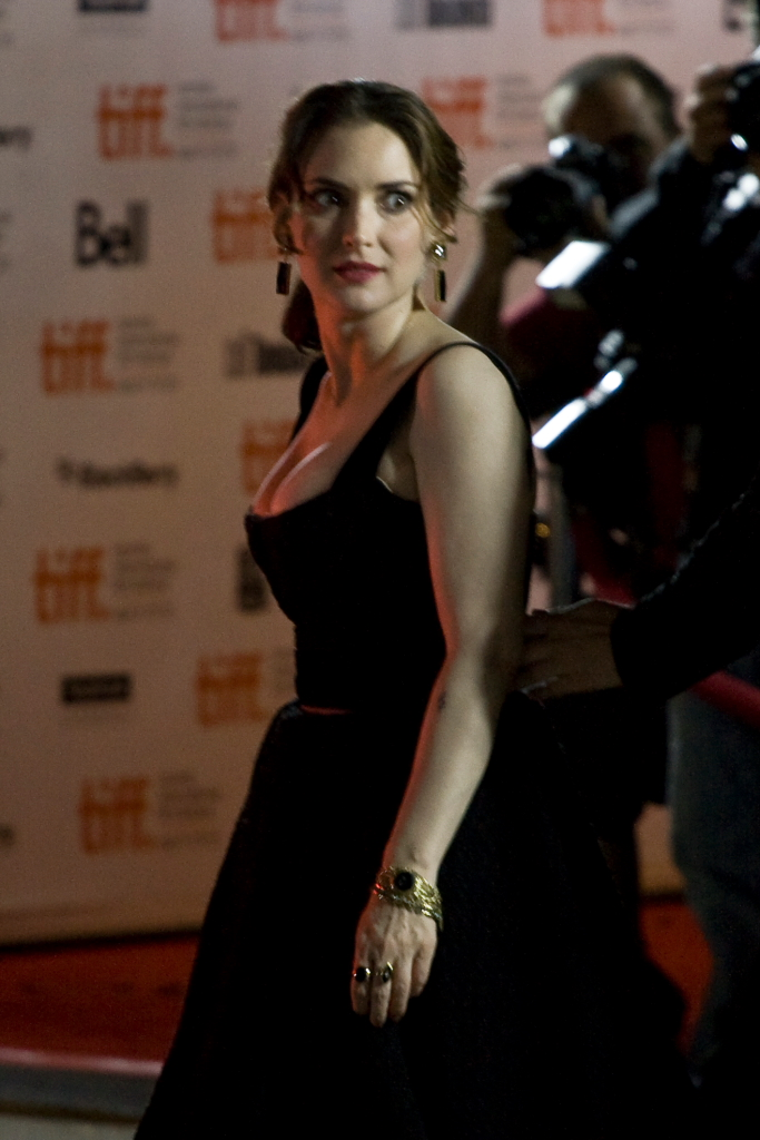 At the premiere of "Black Swan", directed by Darren Aronofsky, during the Toronto International Film Festival, 2010.